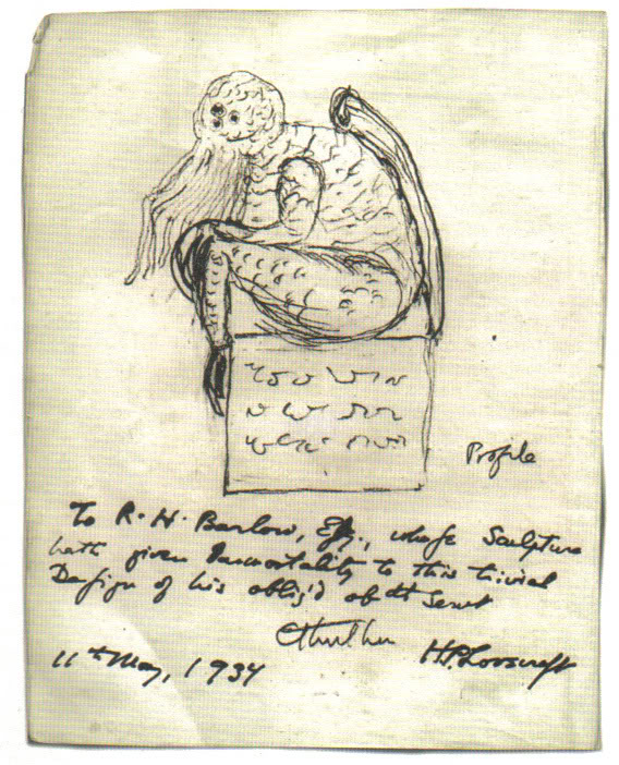 A sketch of a statuette depicting Cthulhu, drawn by his creator, H. P. Lovecraft.